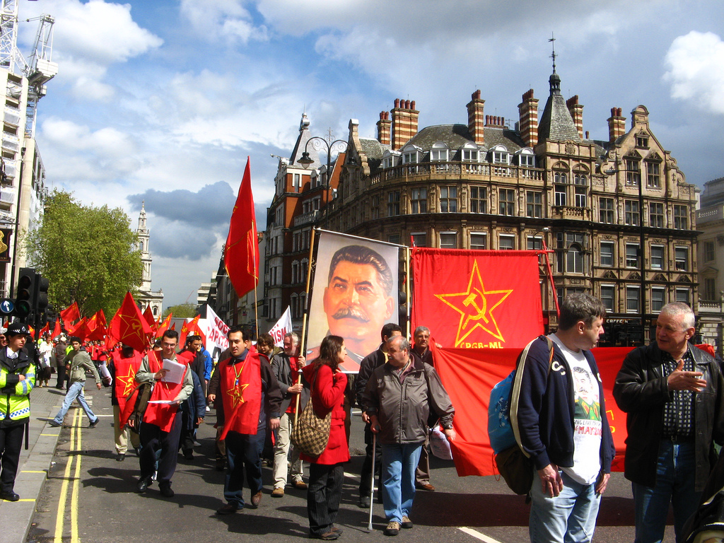 May-day march in London by various left-wing groups.